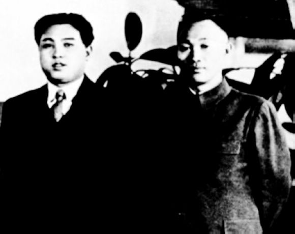 Kim Il-sung and Kim Chaek